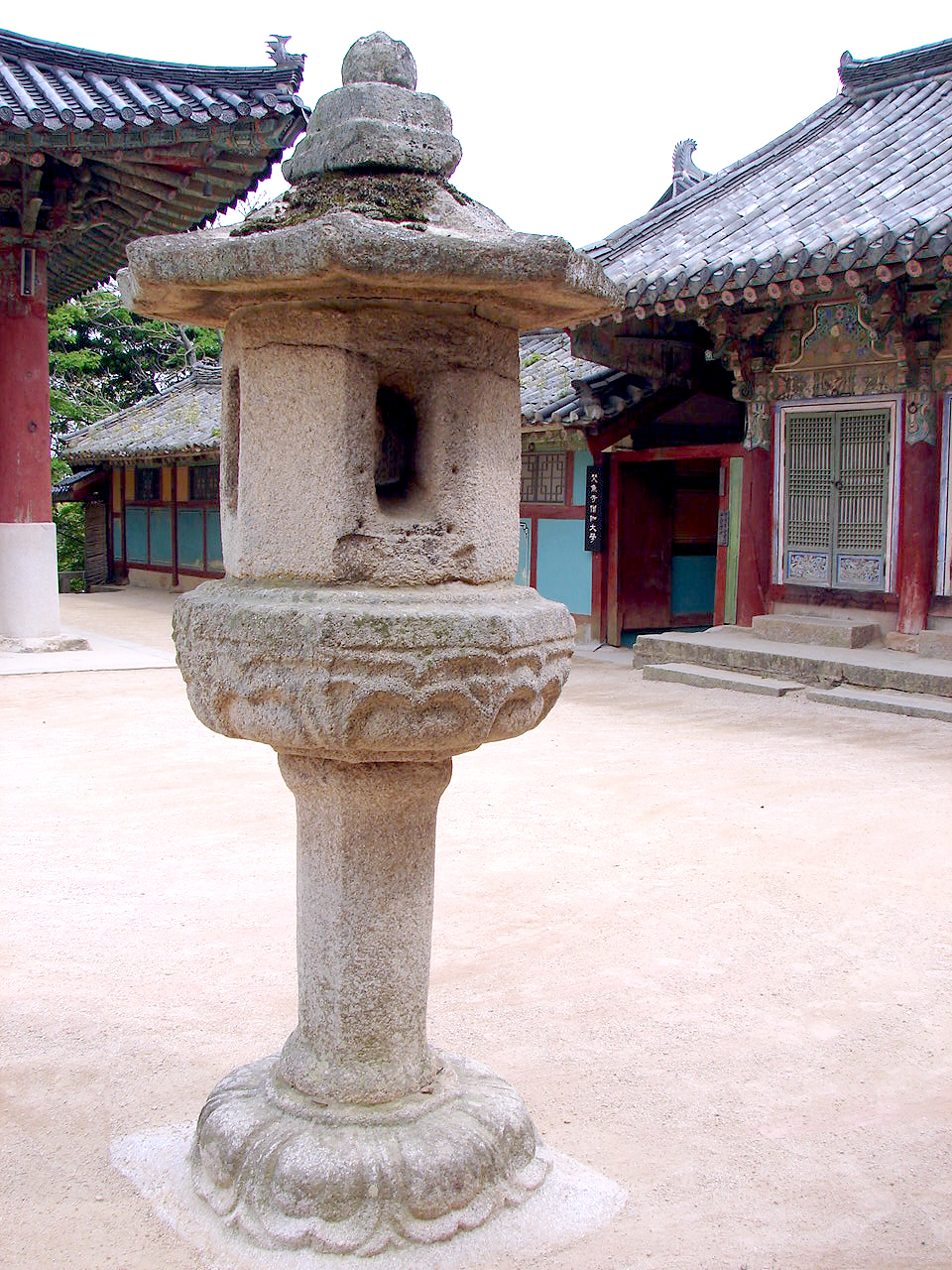 Stone Lantern of Beomeosa is believed to have been built by priest Uisang at the time of the temple construction in 678 during the Silla era. Designated as Local Cultural Asset #16